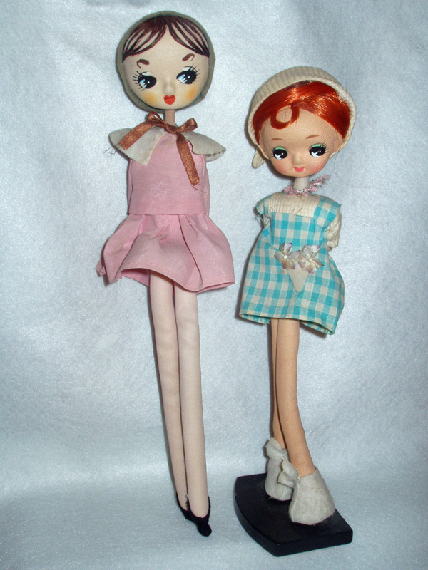 Vintage Bradley brand dolls from Japan